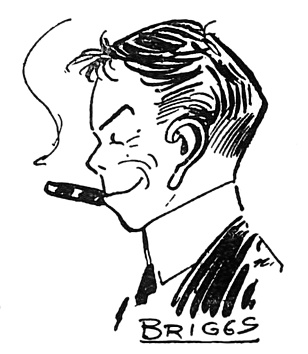 Self-caricature of cartoonist Clare Briggs